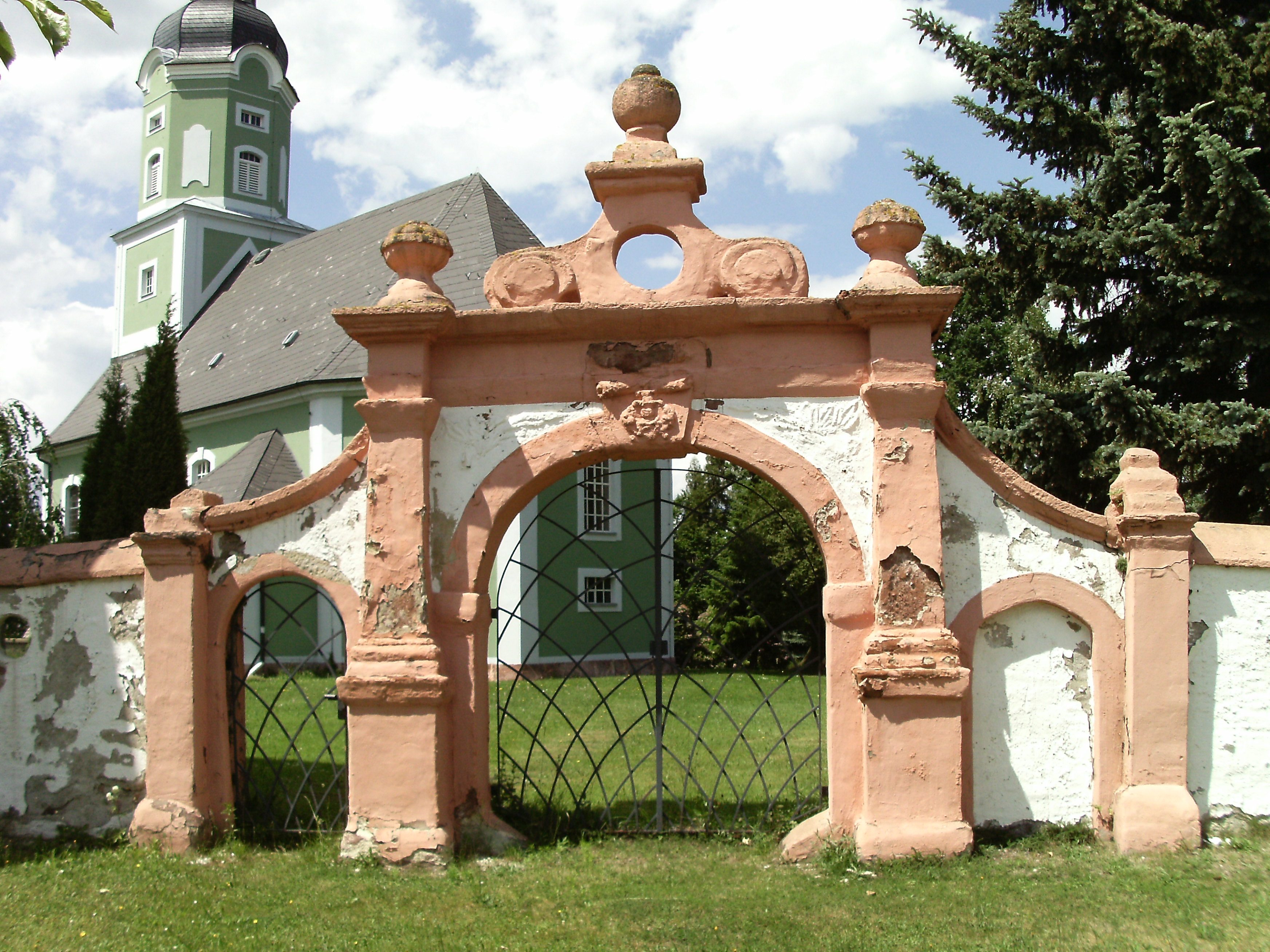 Eastern portal to Elbisbach churchyard (Frohburg, Leipzig district, Saxony)